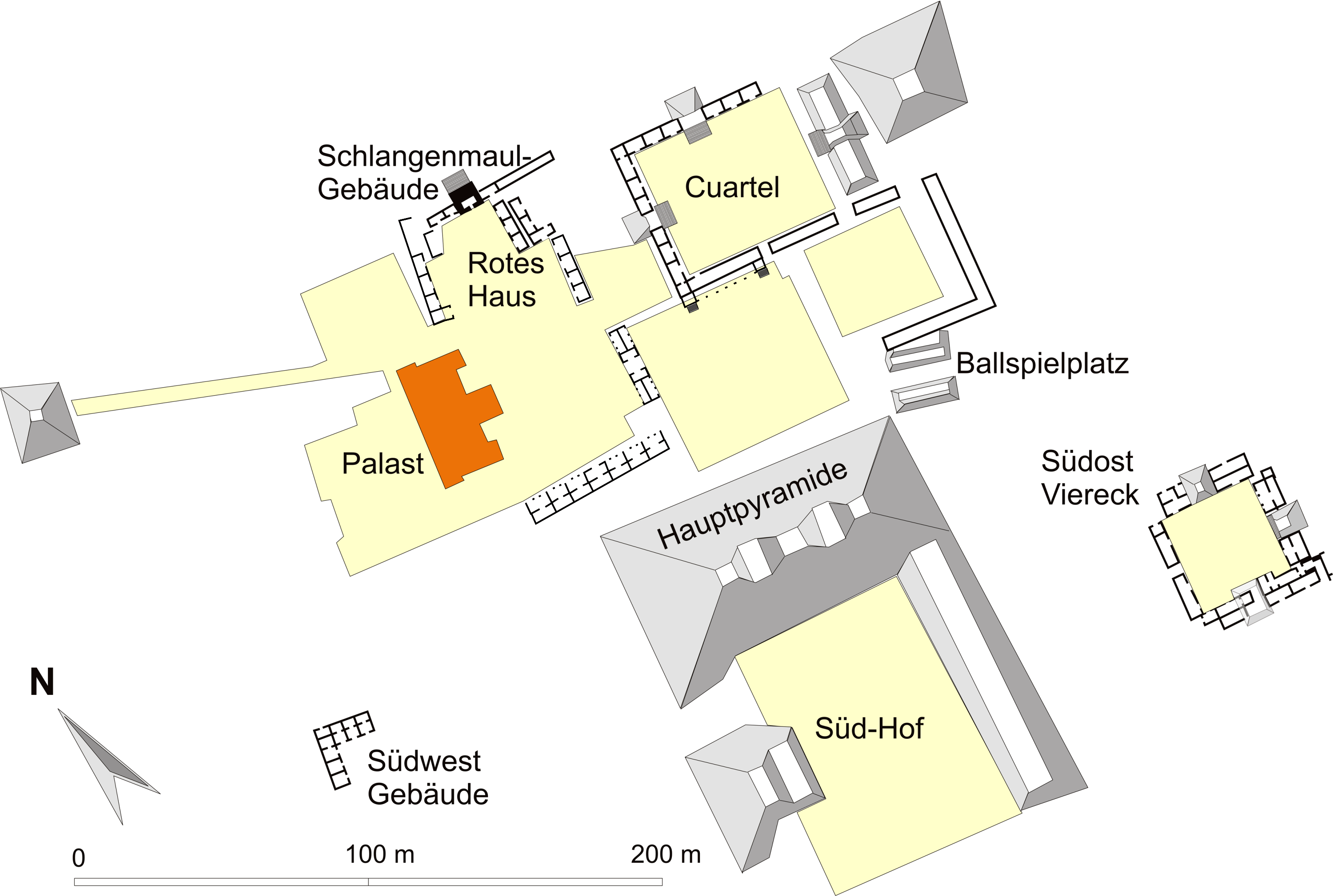 Sta. Rosa Xtampak, Campeche, Mexico: Plan.